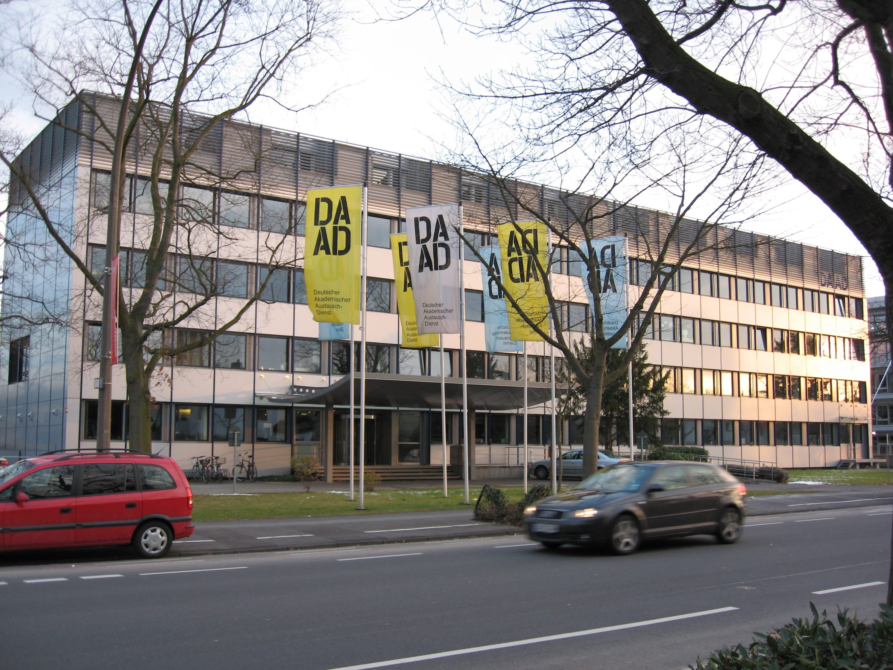 German Academic Exchange Service – Main building in Bonn, Germany.